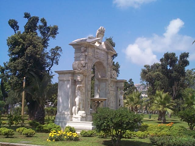 Private photo taken and uploaded by user Jeffmatt 08:05, 25 September 2006 (UTC). No rights claimed.